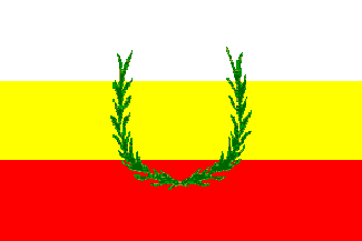 Alternate flag of the municipality (municipio) of Santa Isabel, Puerto Rico